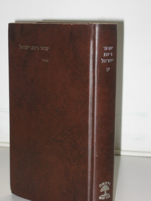 Widely used Prayer Book in Israel